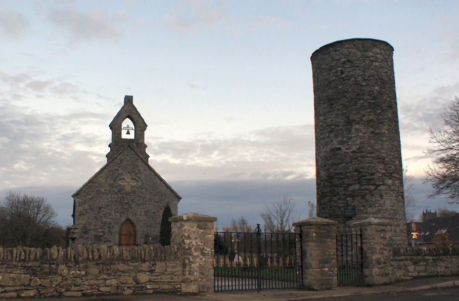 Round Tower Inniskken